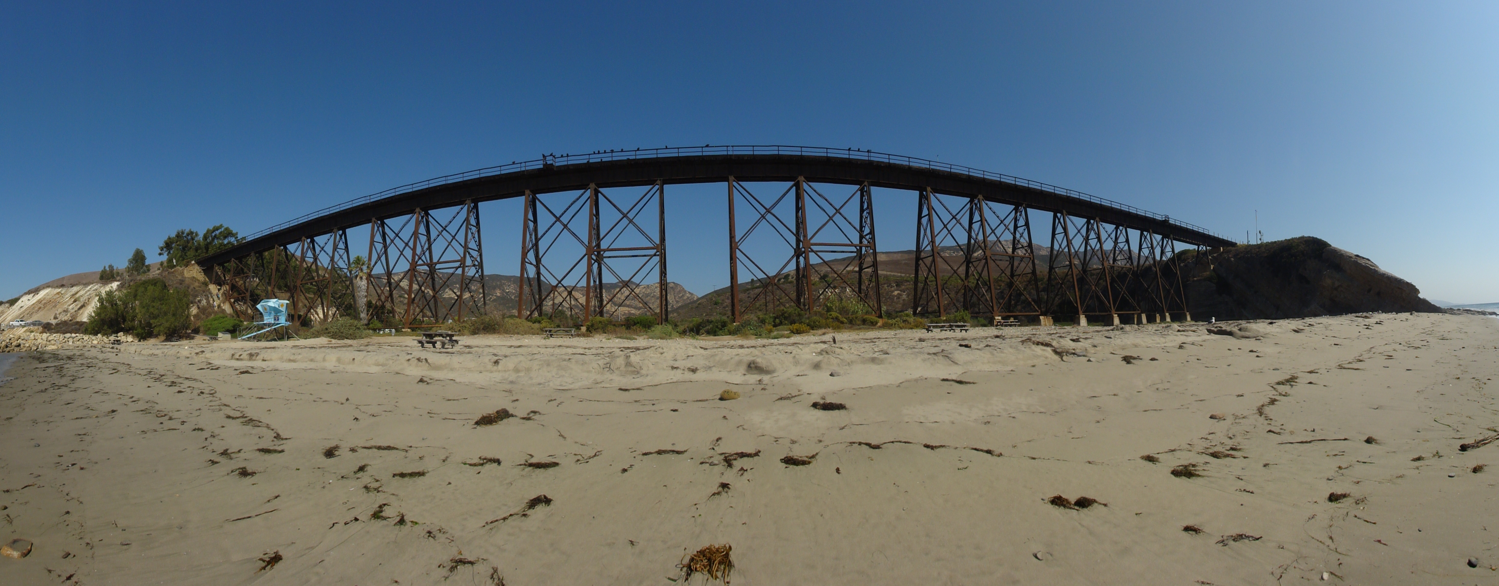 Union Pacific Bridge at the Gaviota State Park, California, USA, as seen from the beach